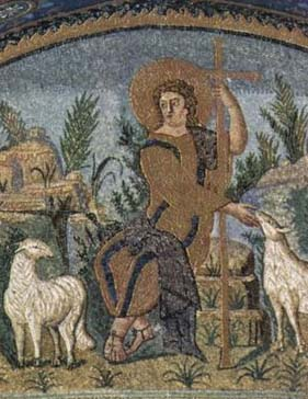 The Good Shepherd, mosaic in Mausoleum of Galla Placidia, Ravenna, 1st half of 5th century